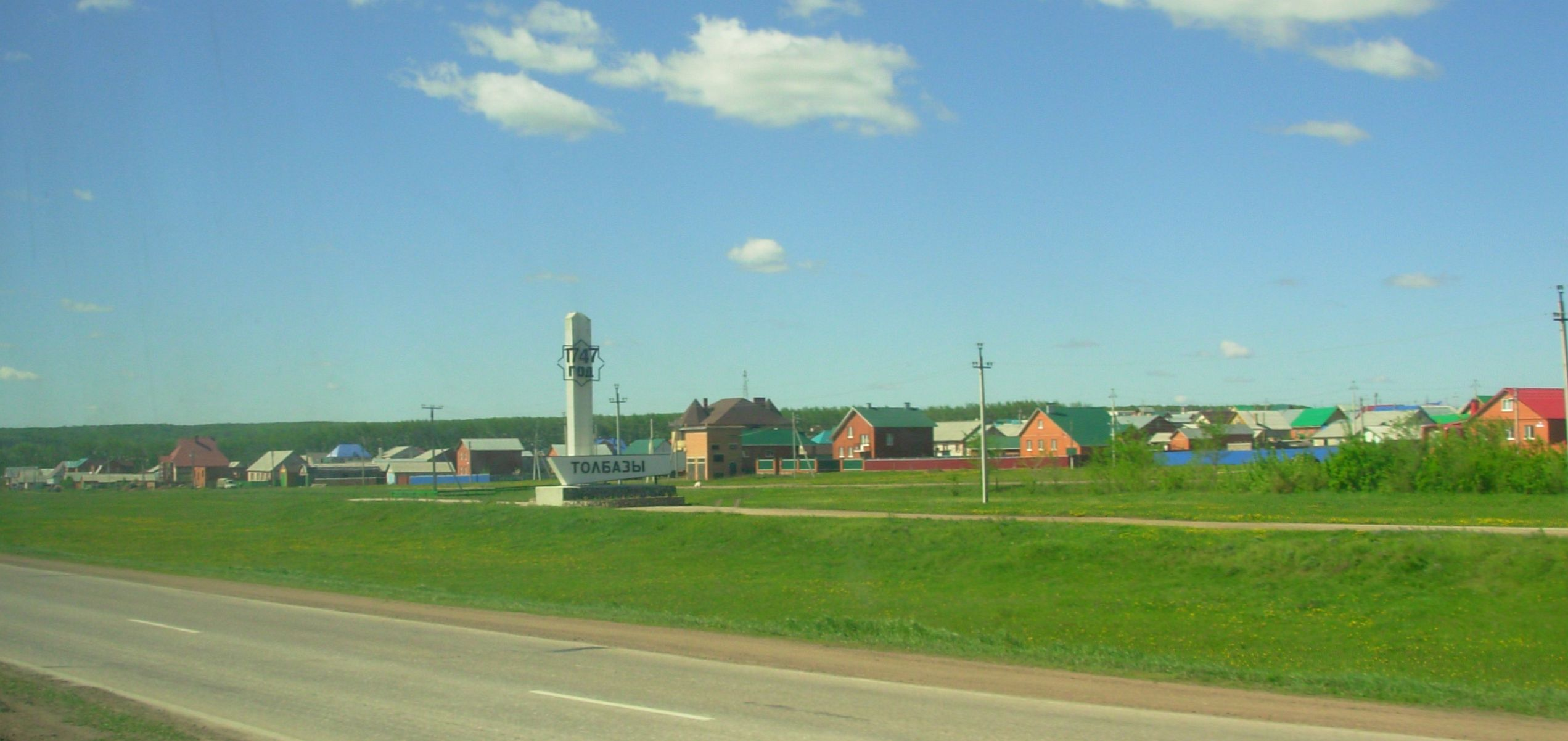 Bashkortostan 2013